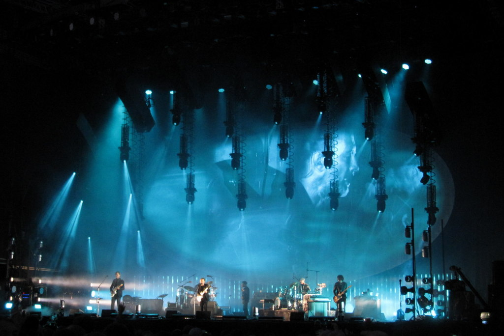 Radiohead on stage at the TRNSMT Festival, Glasgow Green